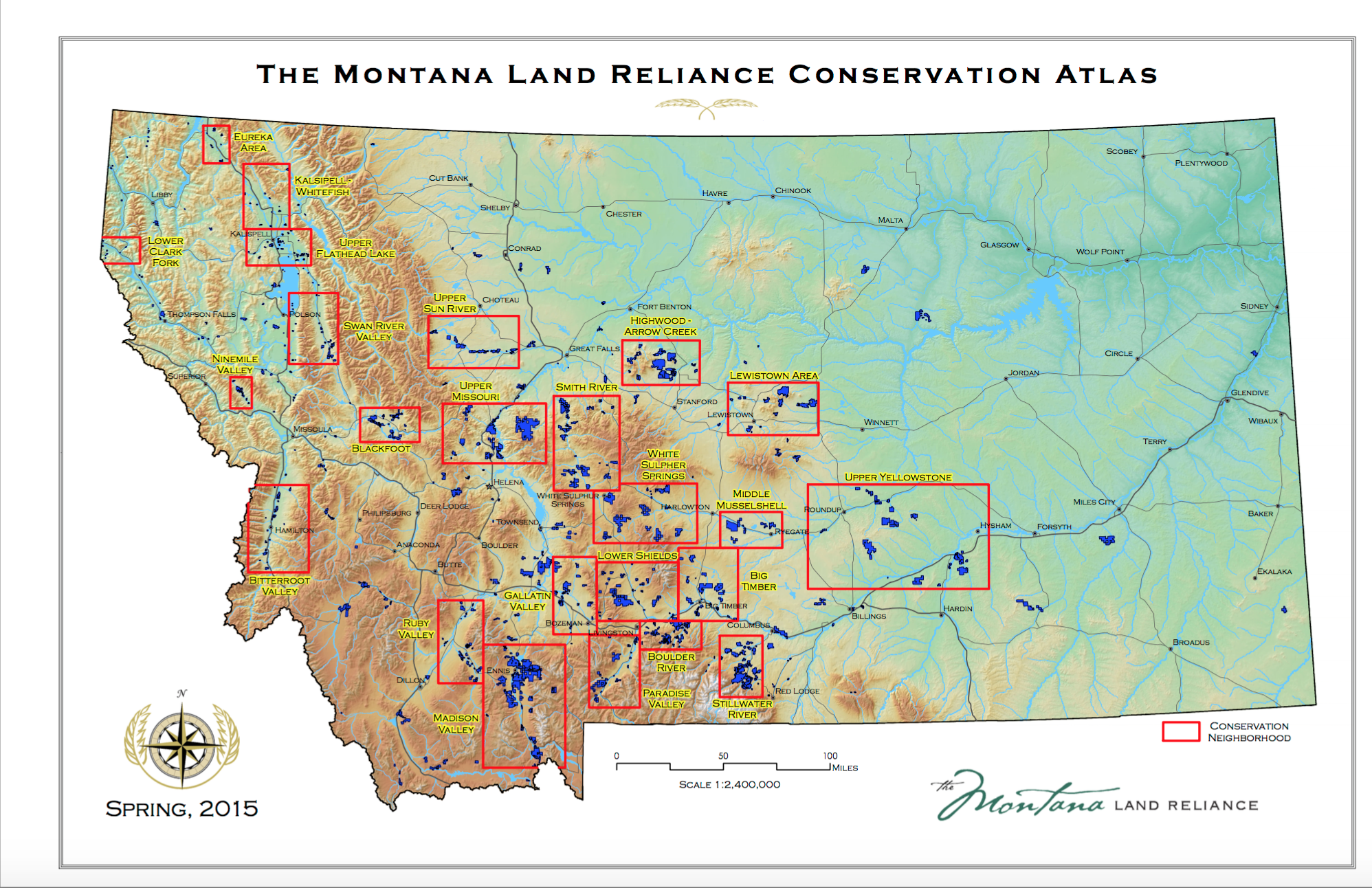 MLR Conservation Atlas